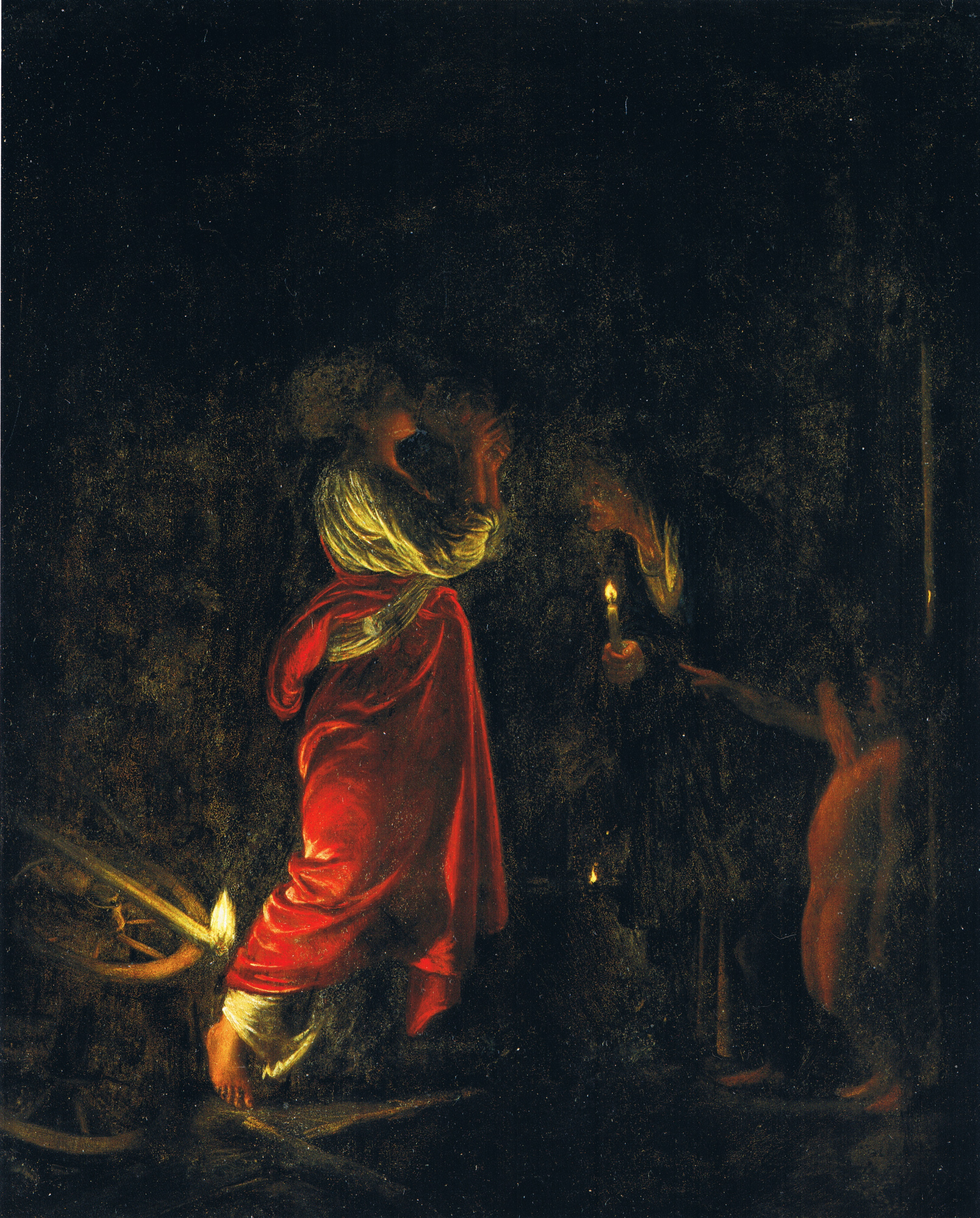 Ceres is mocked by a boy (Ovid. Metamorphoses V, 449-450).